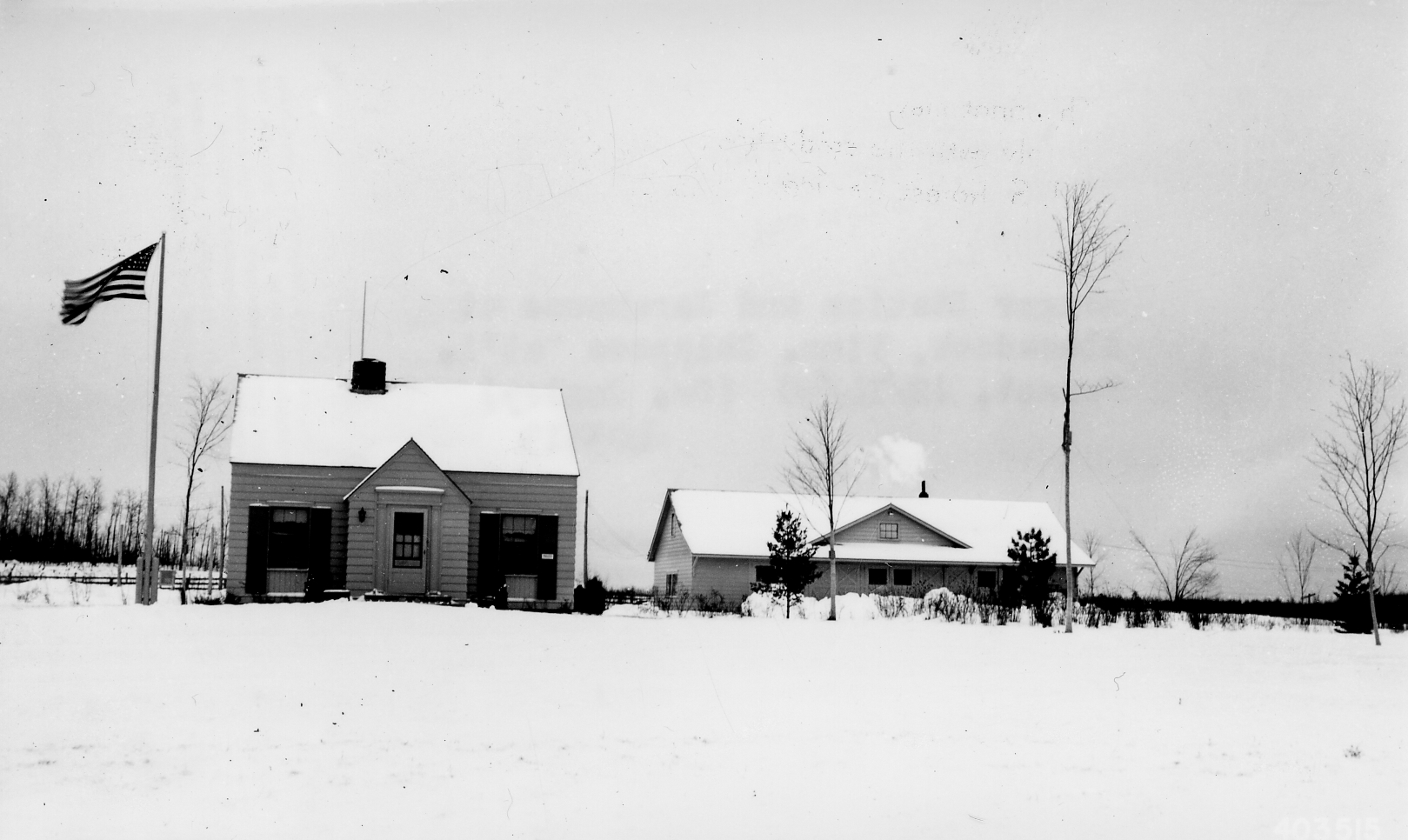 Scope and content: Original caption: Ranger Station and Warehouse at Blackduck, Minn.